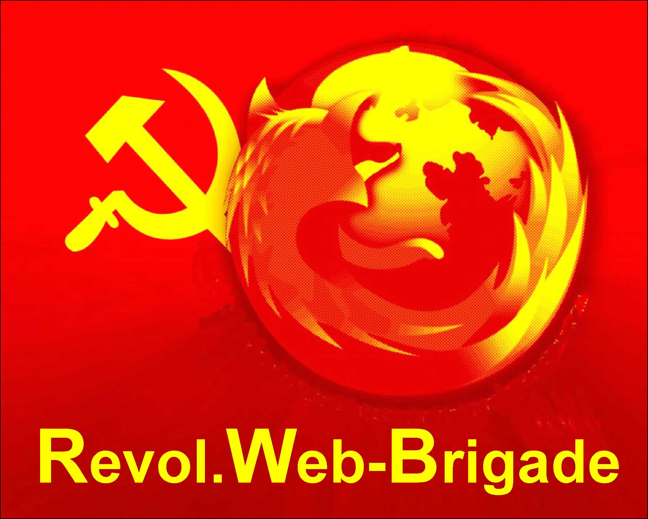 A WP web-brigade icon